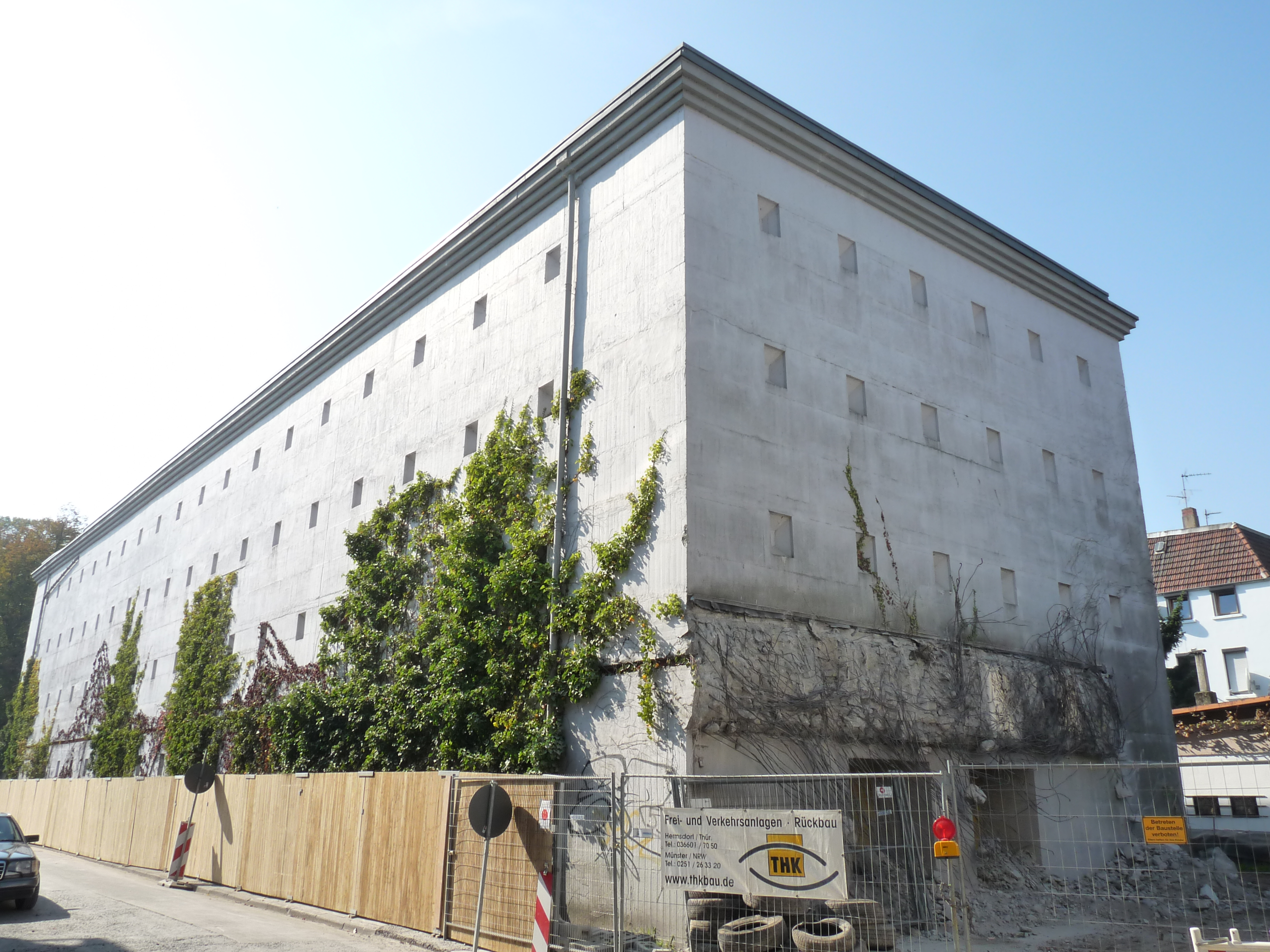 Hochbunker Ottostraße Münster: air raid shelter - view from north